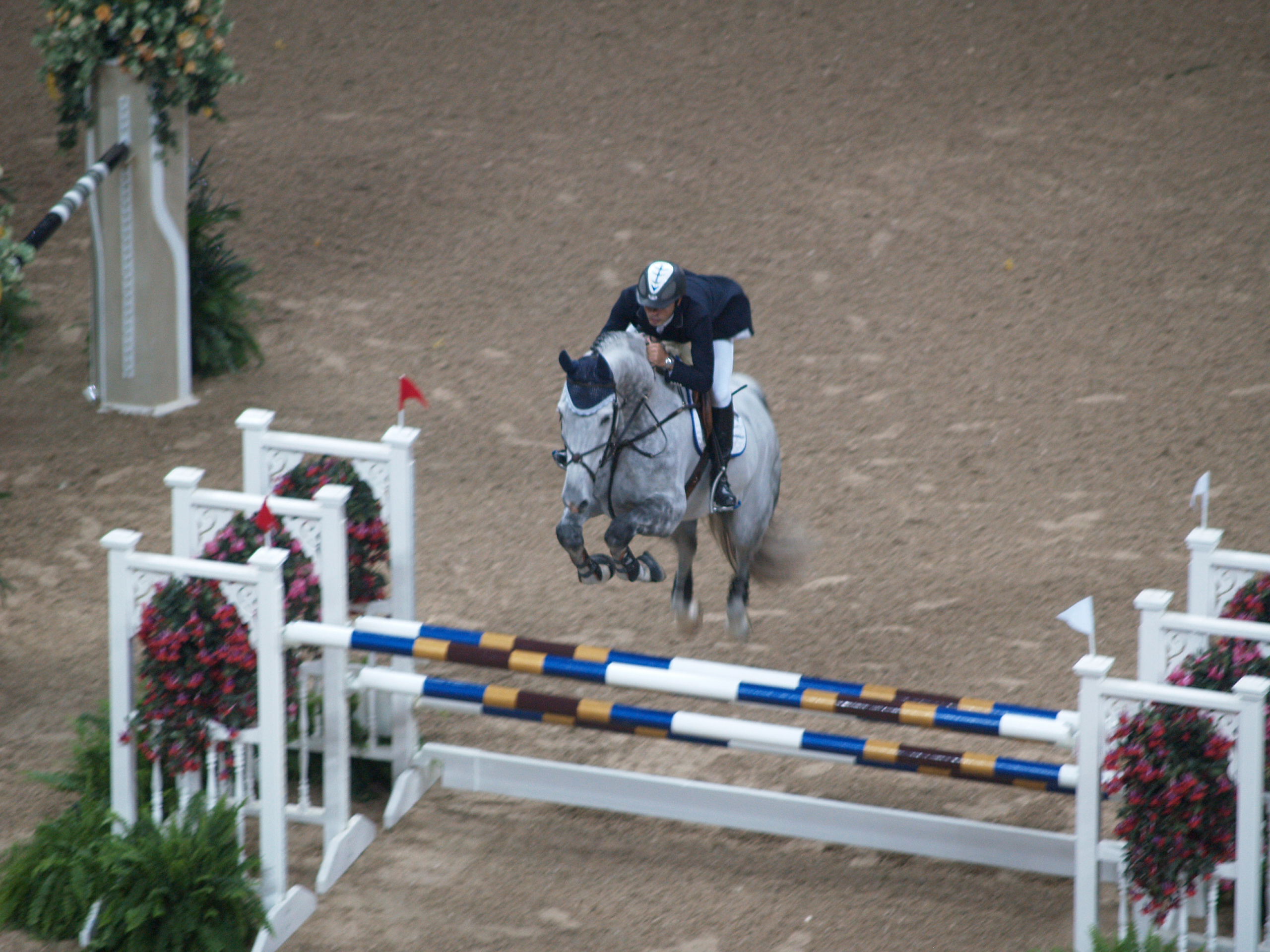 Rodrigo Pessoa representing Brazil in the 2007 FEI World Cup on Coeur, 1996 Holsteiner gelding by Calido.